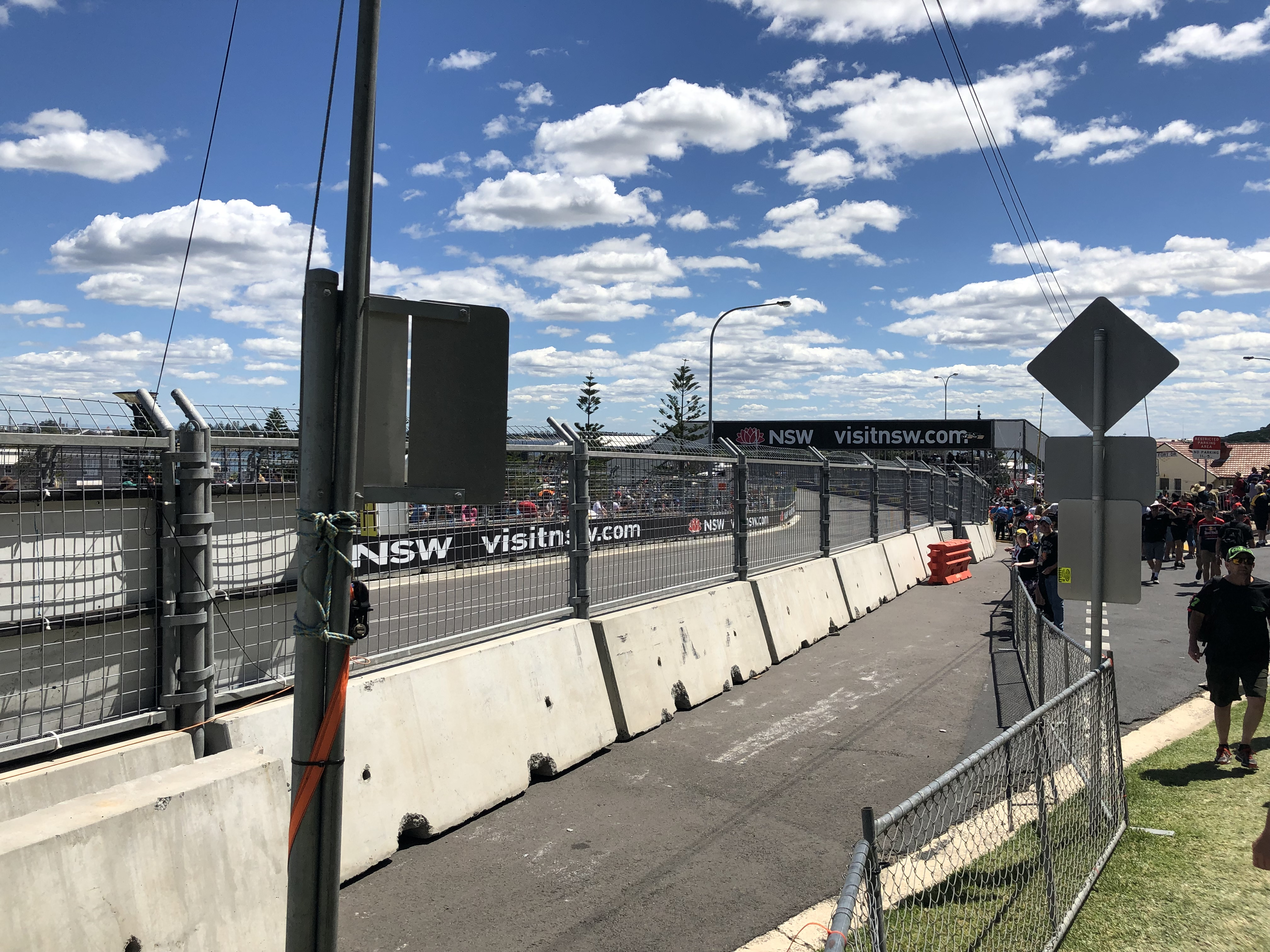 Hairpin on the Newcastle Street Circuit during the 2018 Newcastle 500.